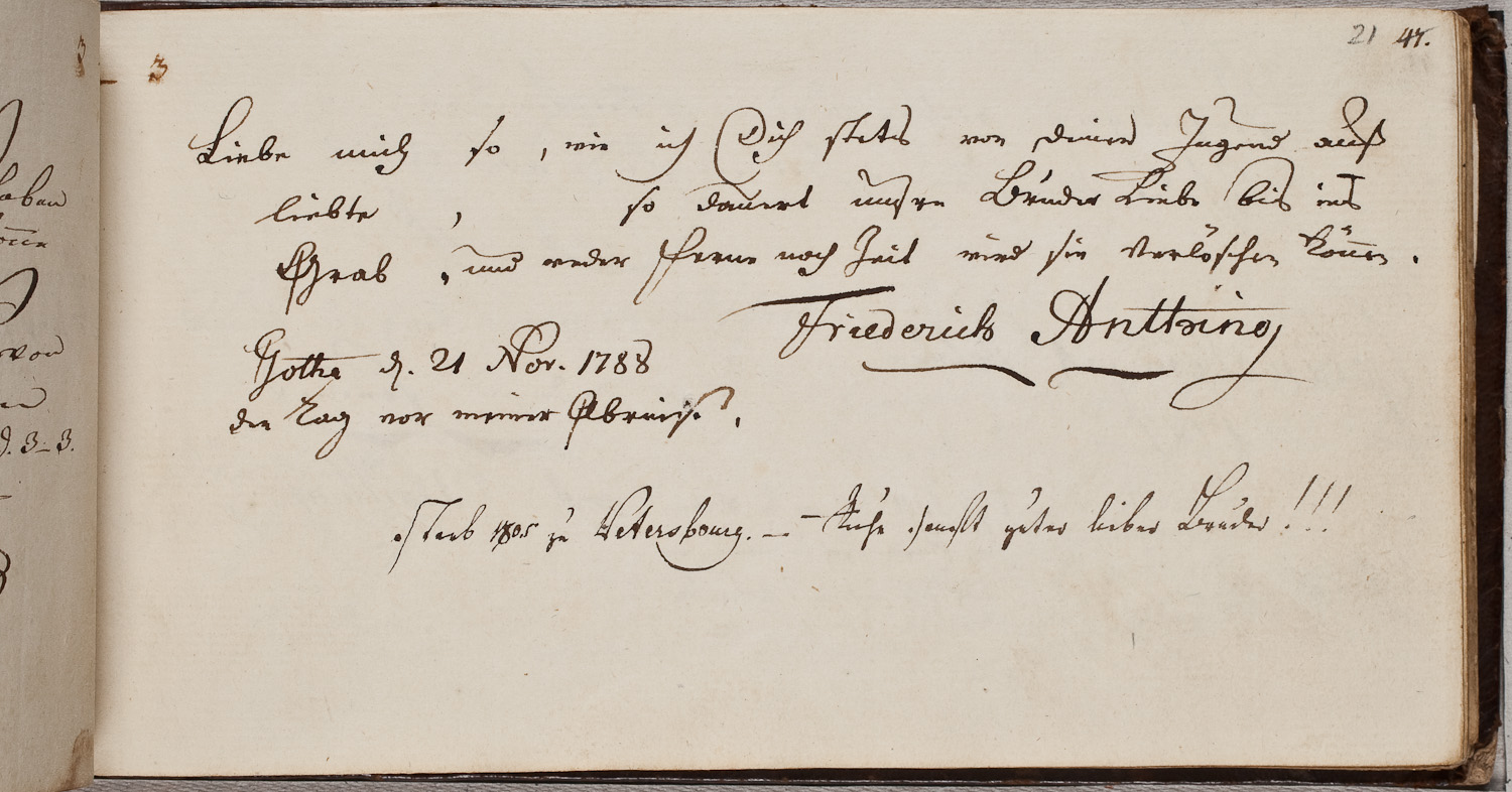 Entry of Johann Friedrich Anthing in his brother's Album amicorum